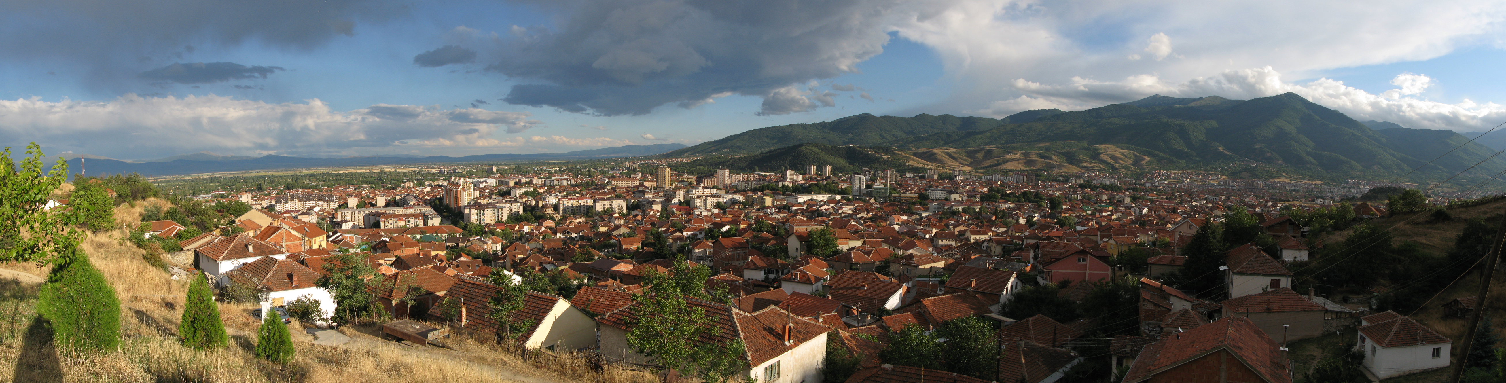 Panoramic view on Bitola (Macedonia) from Karikkardaš hill.